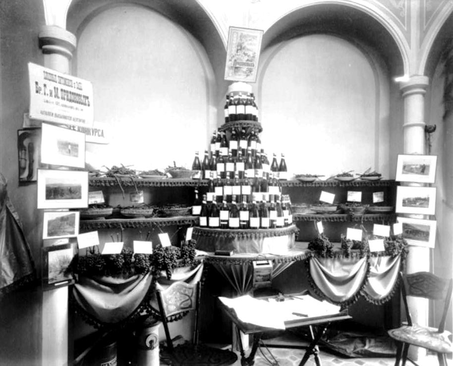 Display of grapes and wines, Georgia (Republic)